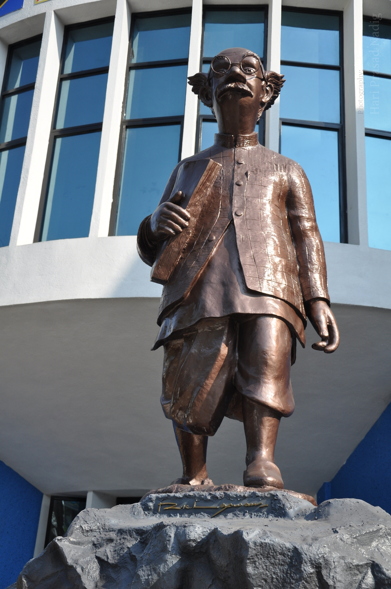 The Common man. A creation by R K Laxman is a famous icon, character. Featured on a commemorative postage stamp and used earlier by a domestic airline as a mascot, the common man is more than just an illustration. The above photo is of the 10 plus feet high bronze statue of "The Common man" by R K Laxman at Symbiosis Institute, Pune, India.